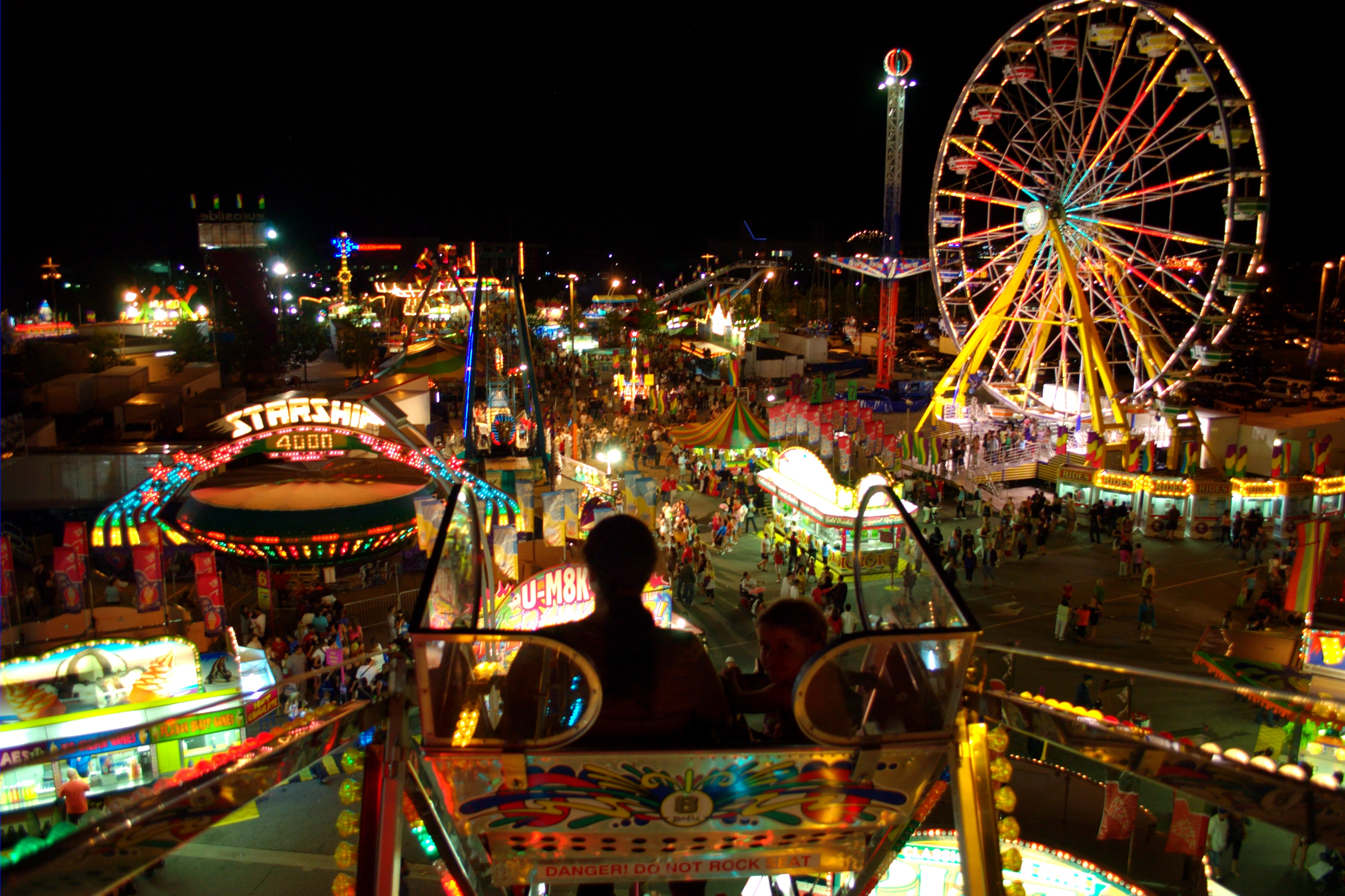 The Canadian National Exhibition in Toronto at night in 2008.